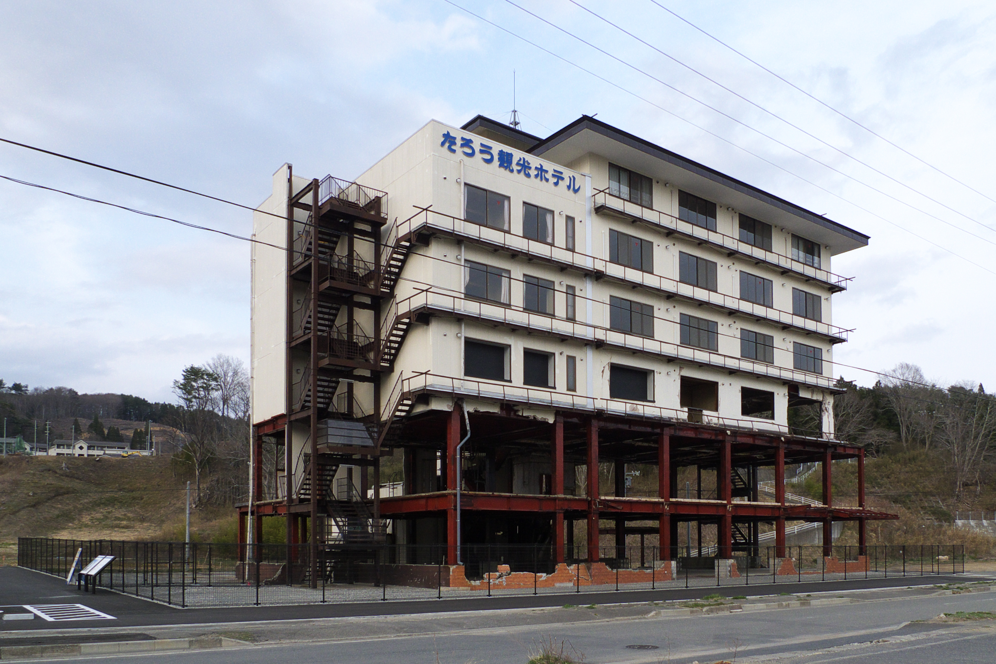 Taro Kanko Hotel, ruin of a hotel that was hit by the tsunami caused by the East Japan Great Earthquake in 2011, in Miyako City, Iwate Prefecture, Japan